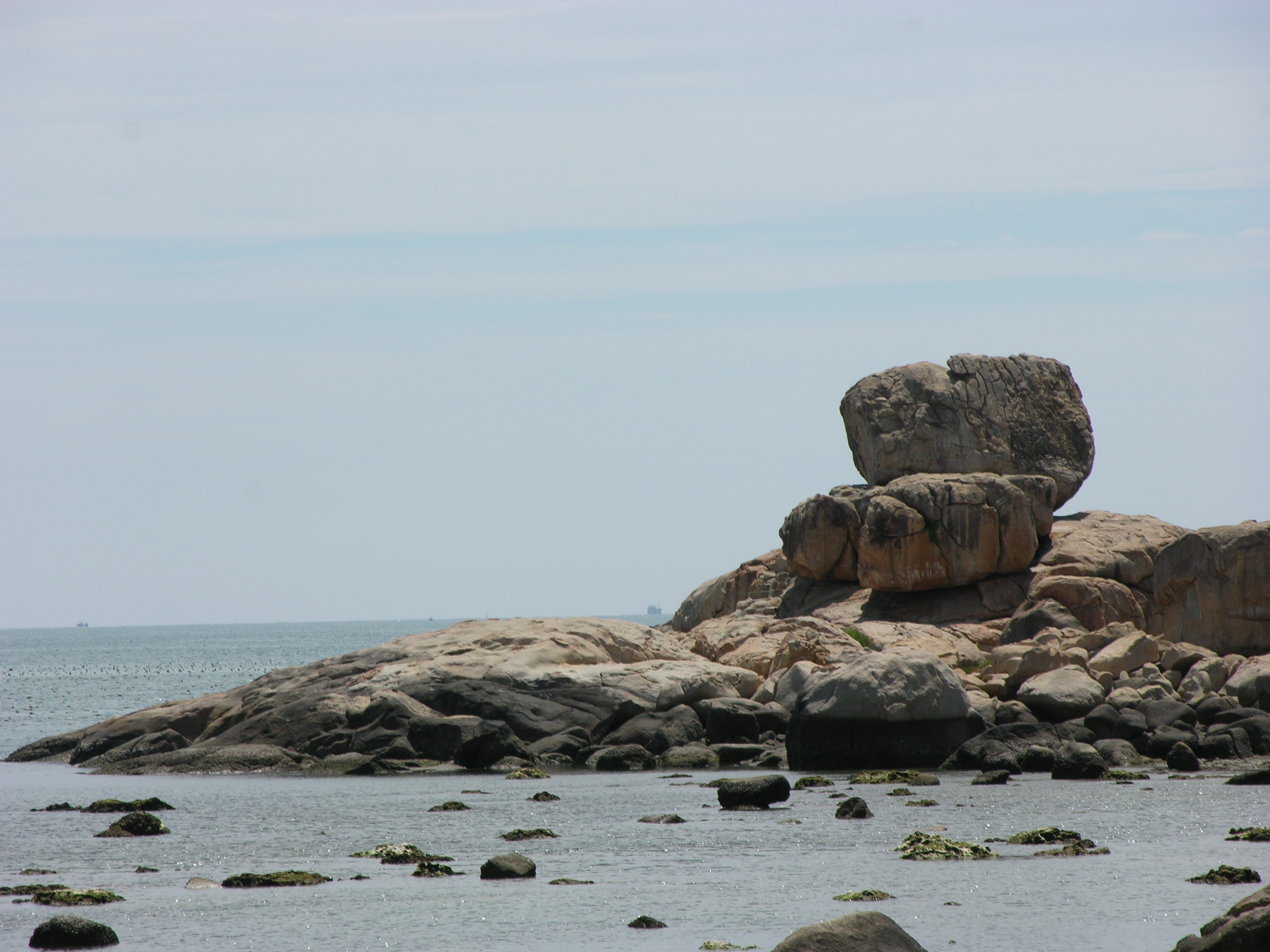 Hon Chong seen from Co Tien beach